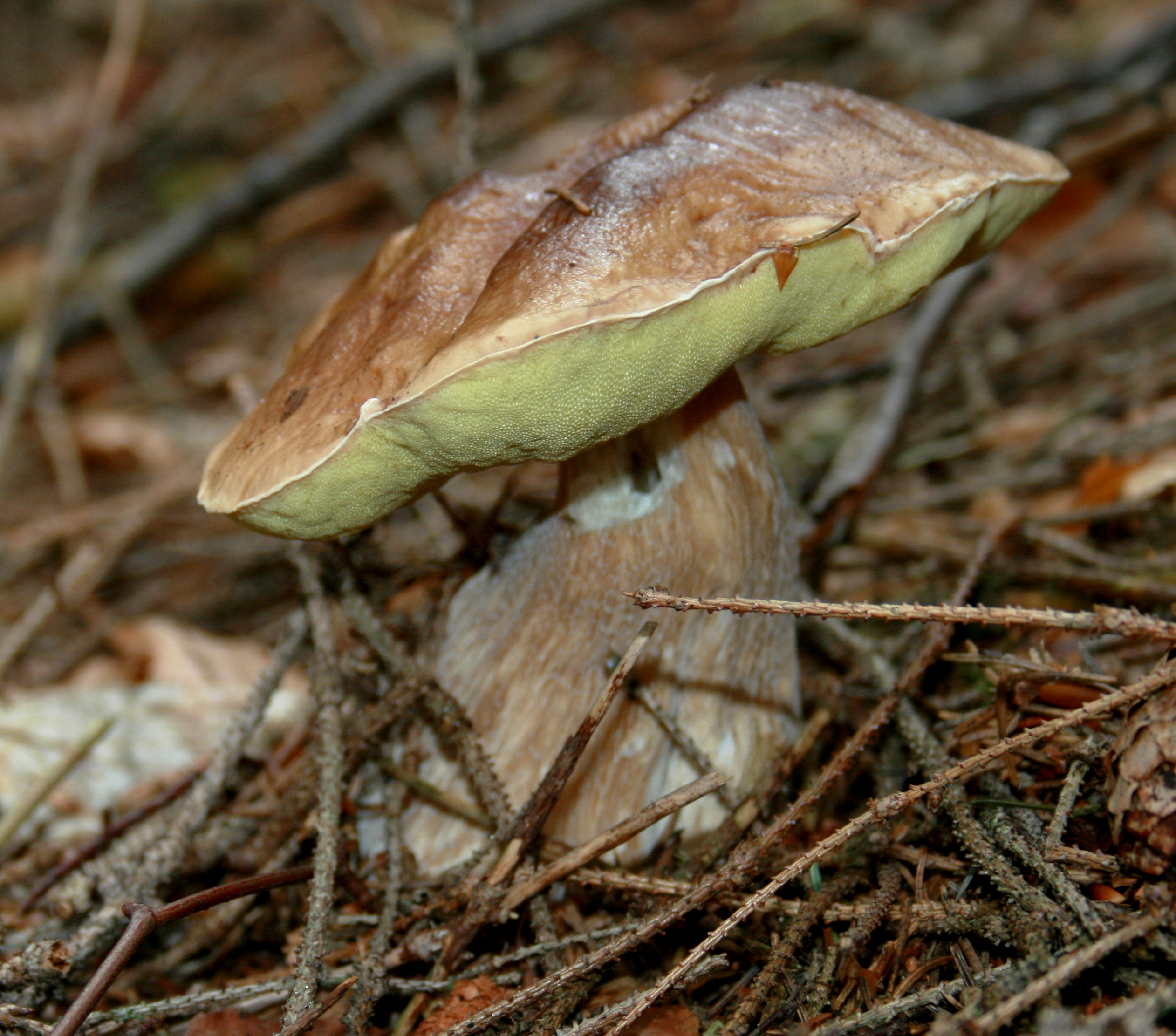 Boletus edulis, found in South Bohemia, Czech Republic